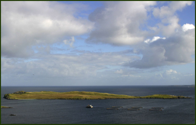 South Isle of Gletness The one of the islands off Gletness from vantage point below the hill of Taing. Salmon cages in foreground